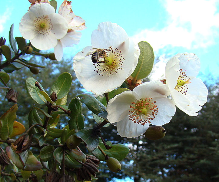 From southern Chile, a tree known as Ulmo In context at